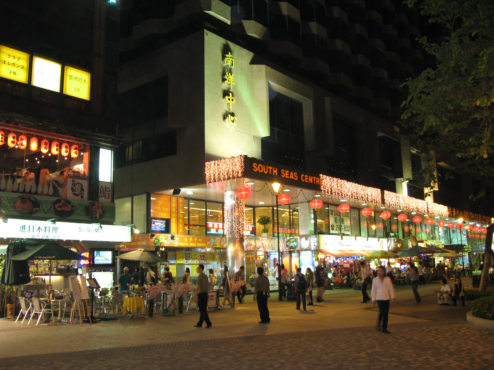 HK East Tsim Sha Tsui at Night